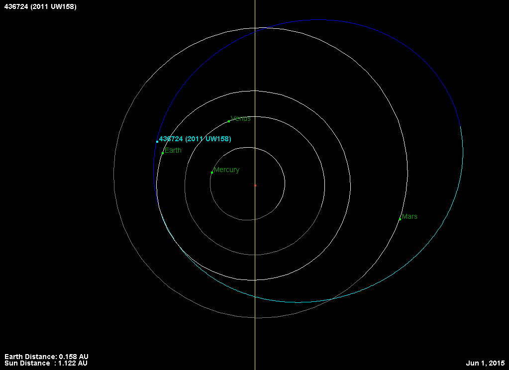 436724 2011 UW158 orbit and his position on 01 Jun 2015 (NASA Orbit Viewer applet)